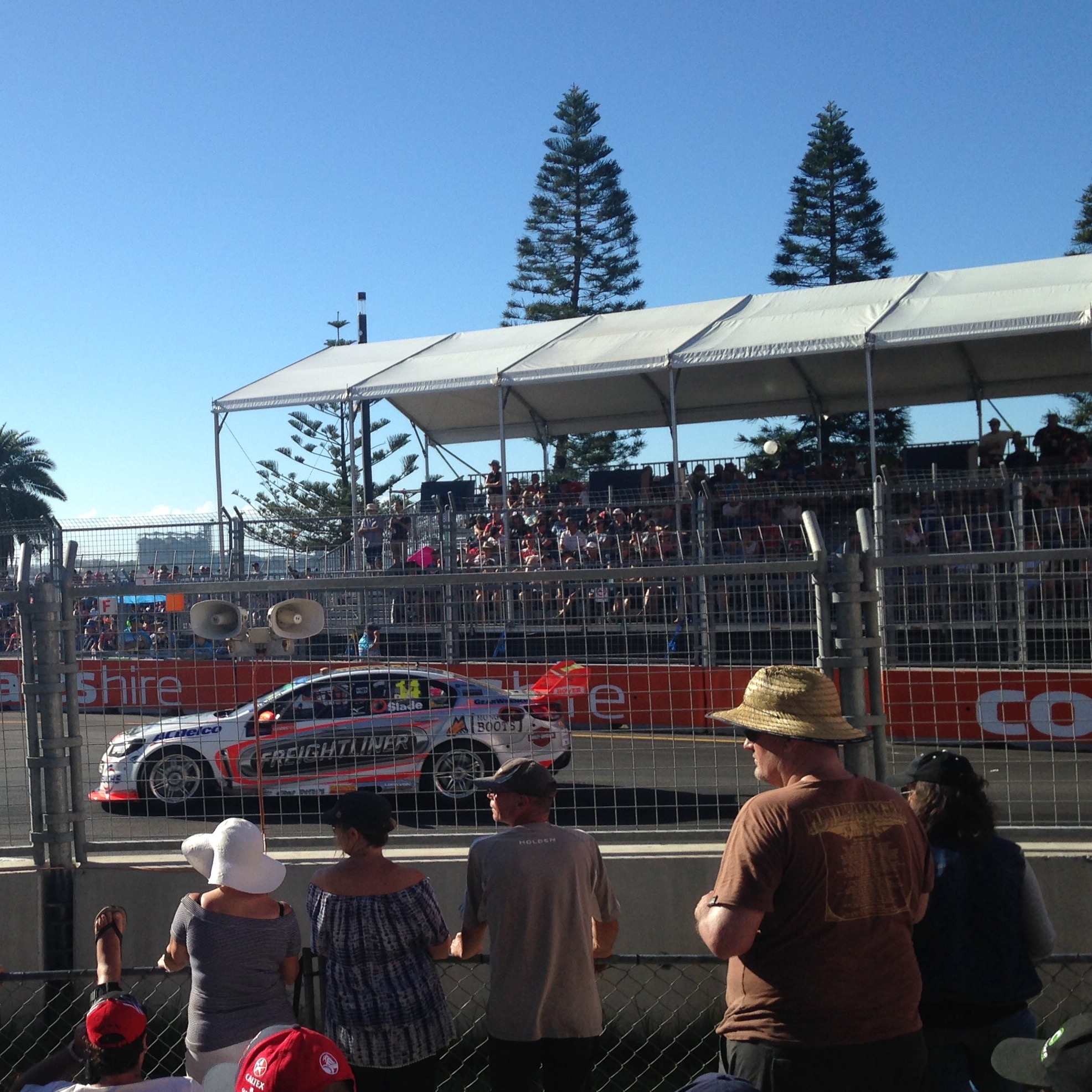 Tim Slade competing for Brad Jones Racing in the 2017 Newcastle 500